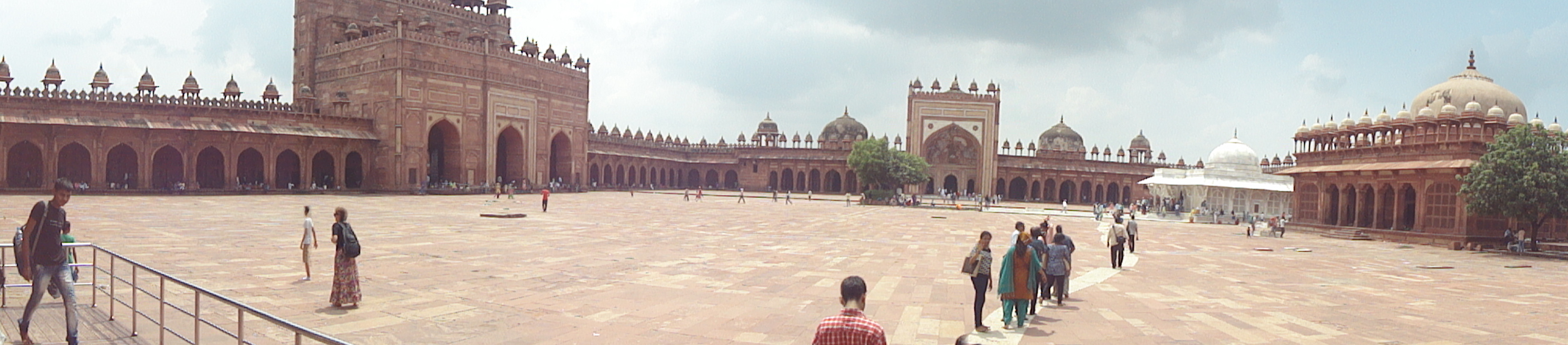 Palace of Mughal Kingdom